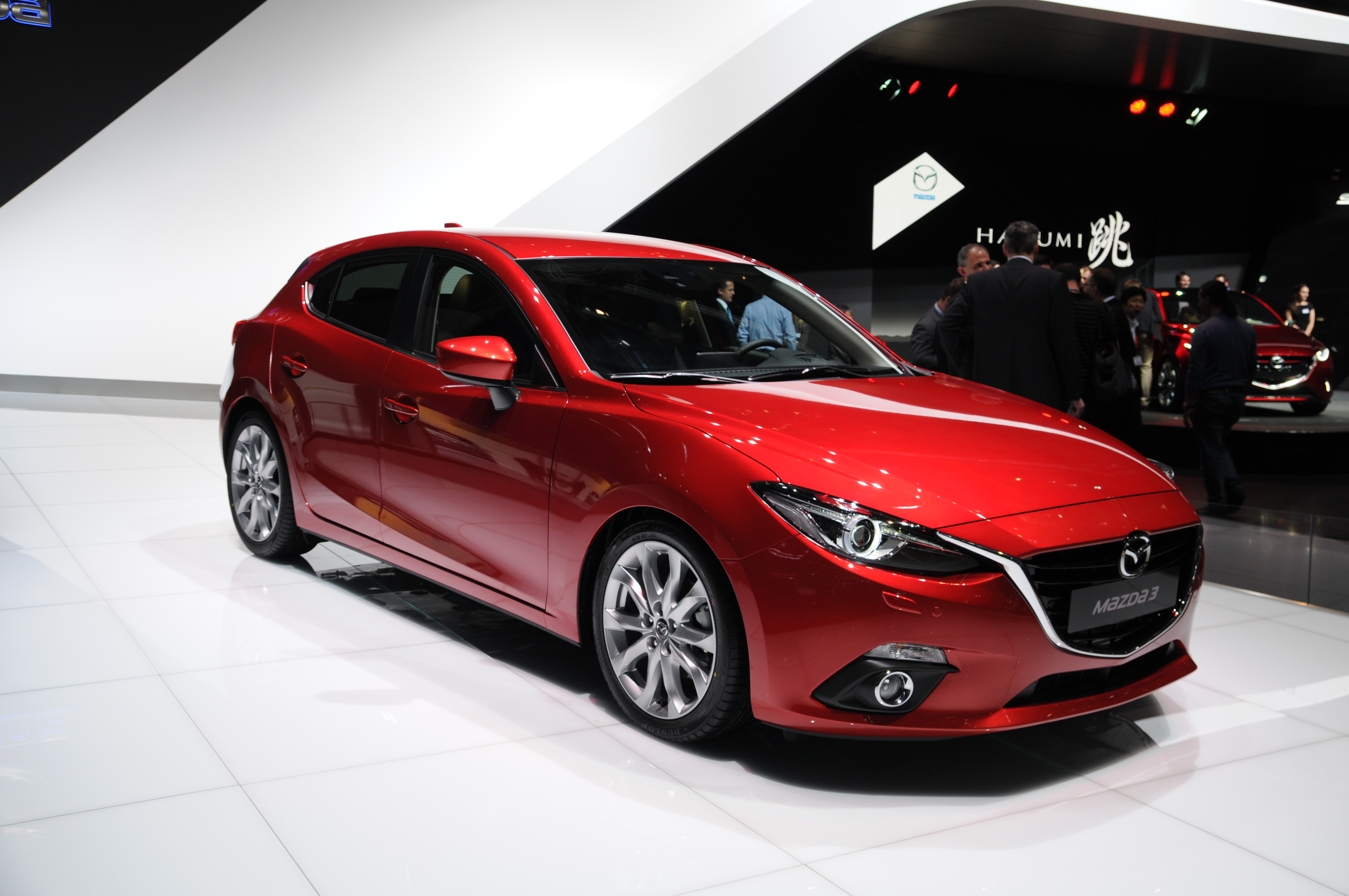 Geneva Motor Show 2014 (photo taken on the first press day)